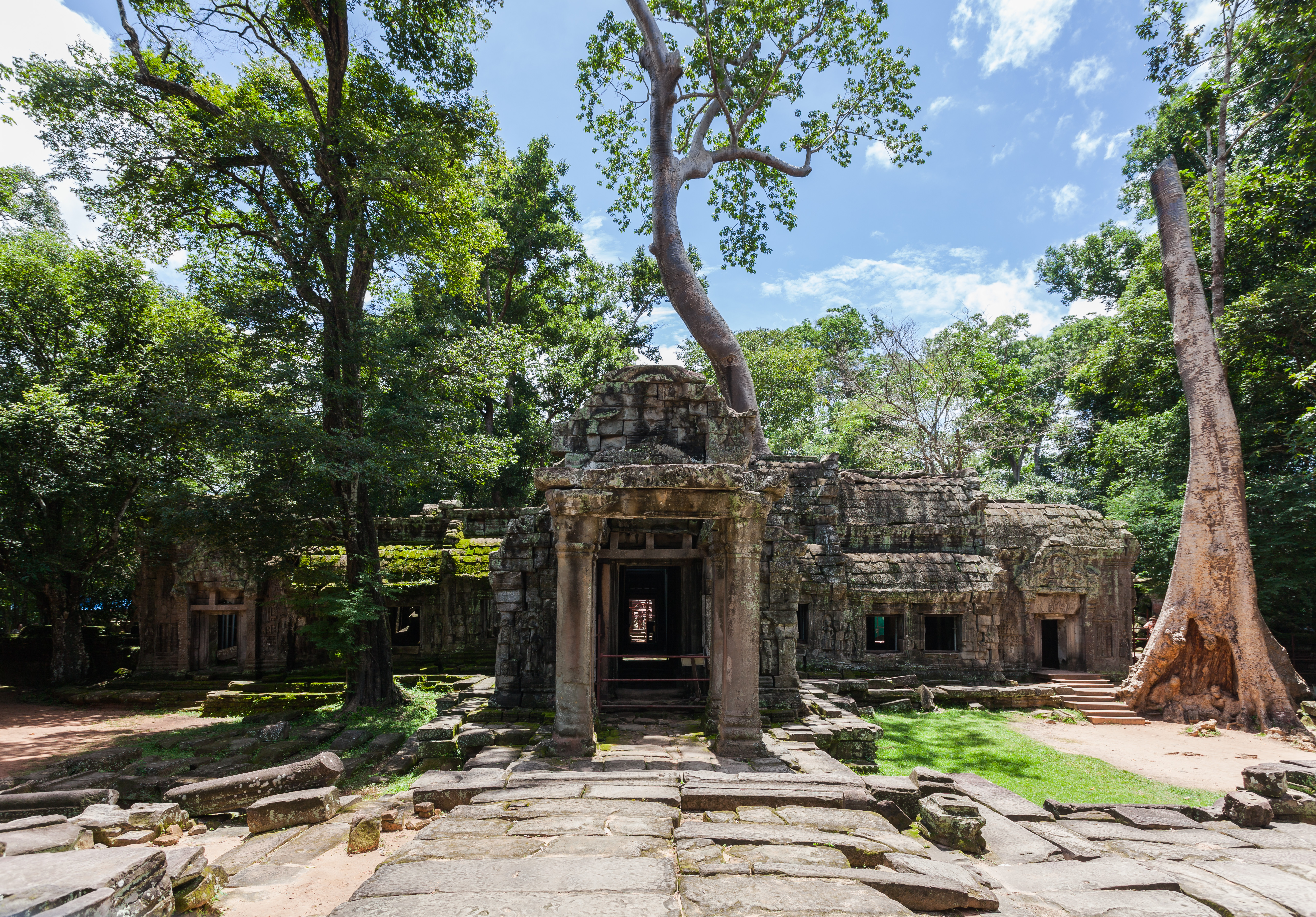 Ta Phrom, Angkor, Cambodia